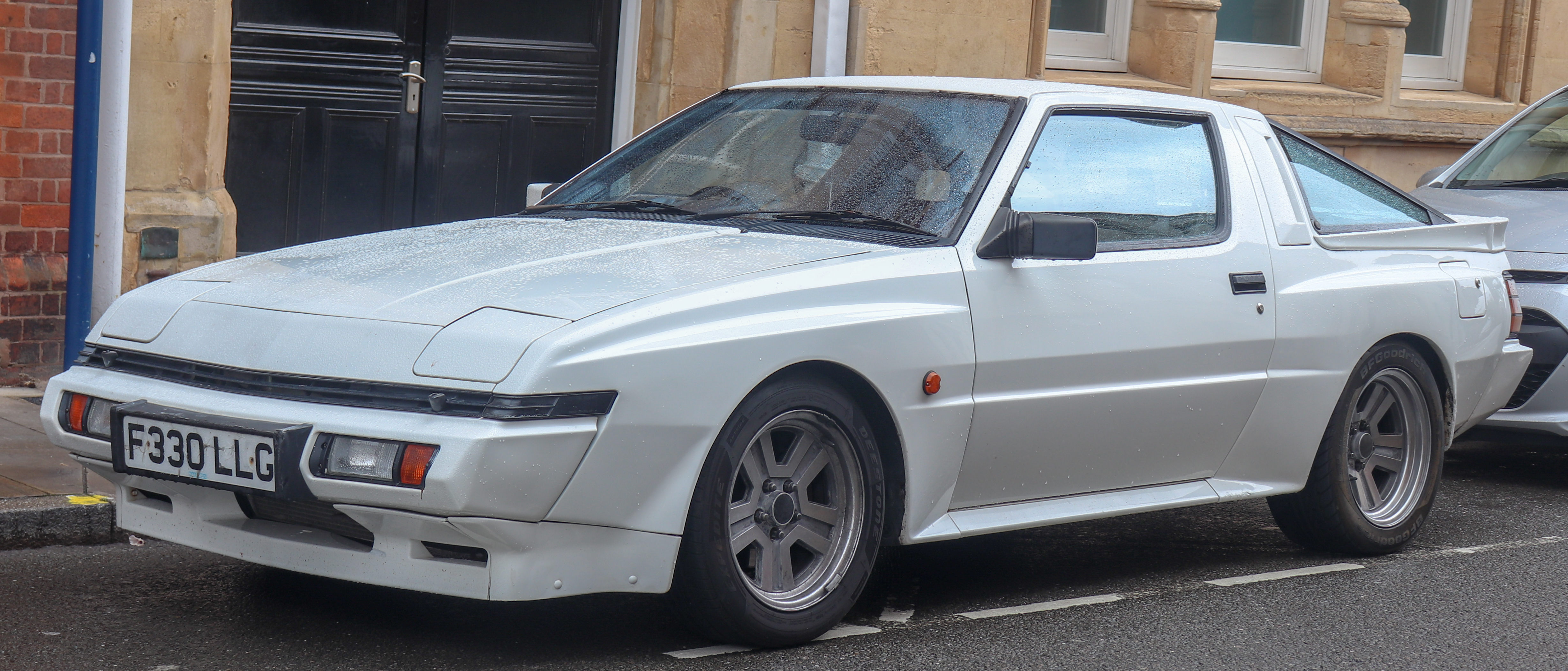 1988 Mitsubishi Starion Turbo 2.0 Front Taken in Warwick